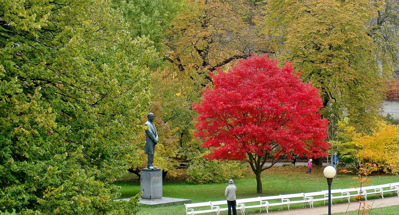 City of Karlovy Vary in Autumn period 2011